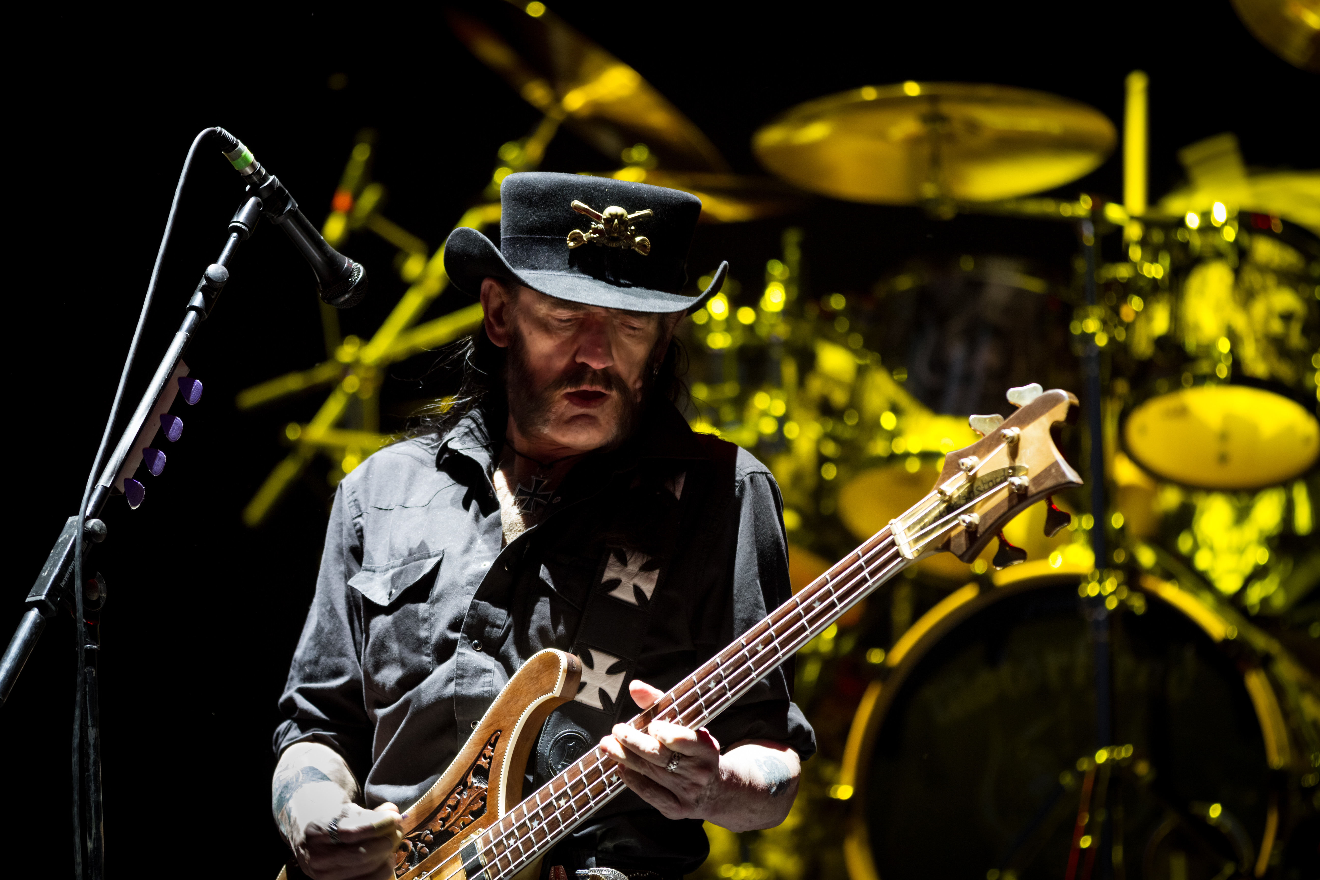 Motörhead - Rock am Ring 2015